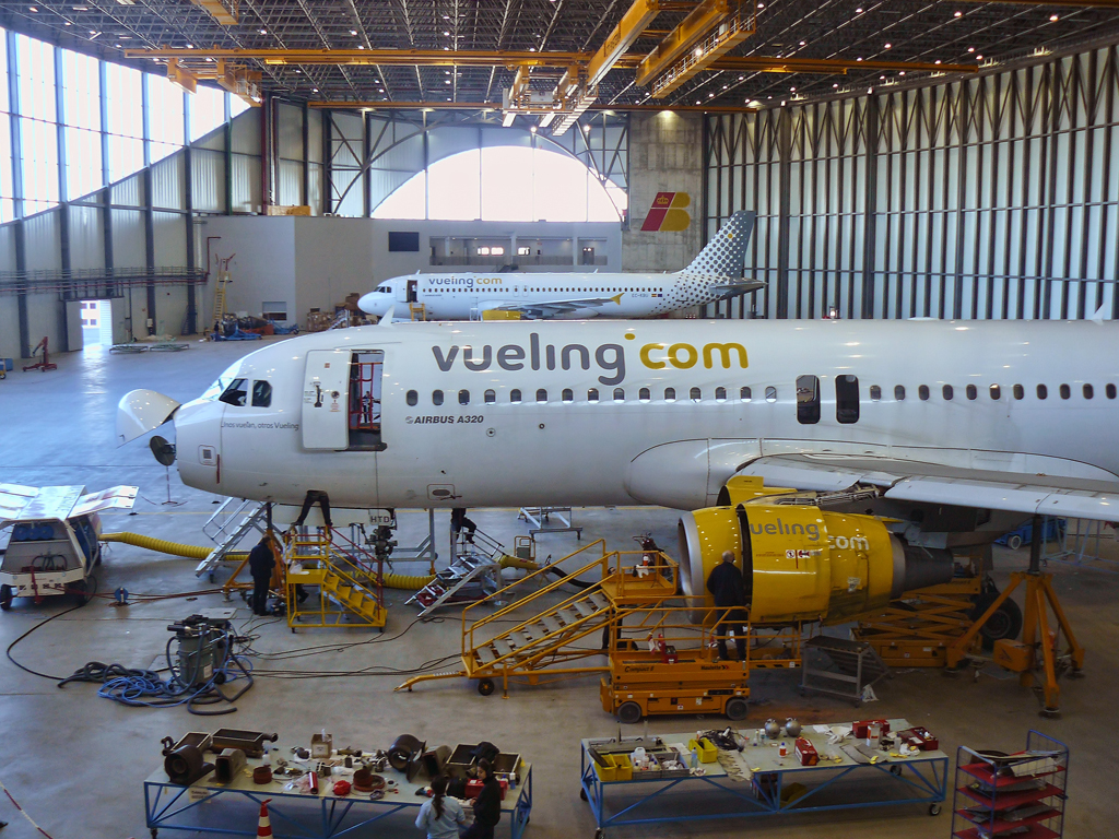 Perspective of the hangar with two A320 of Vueling